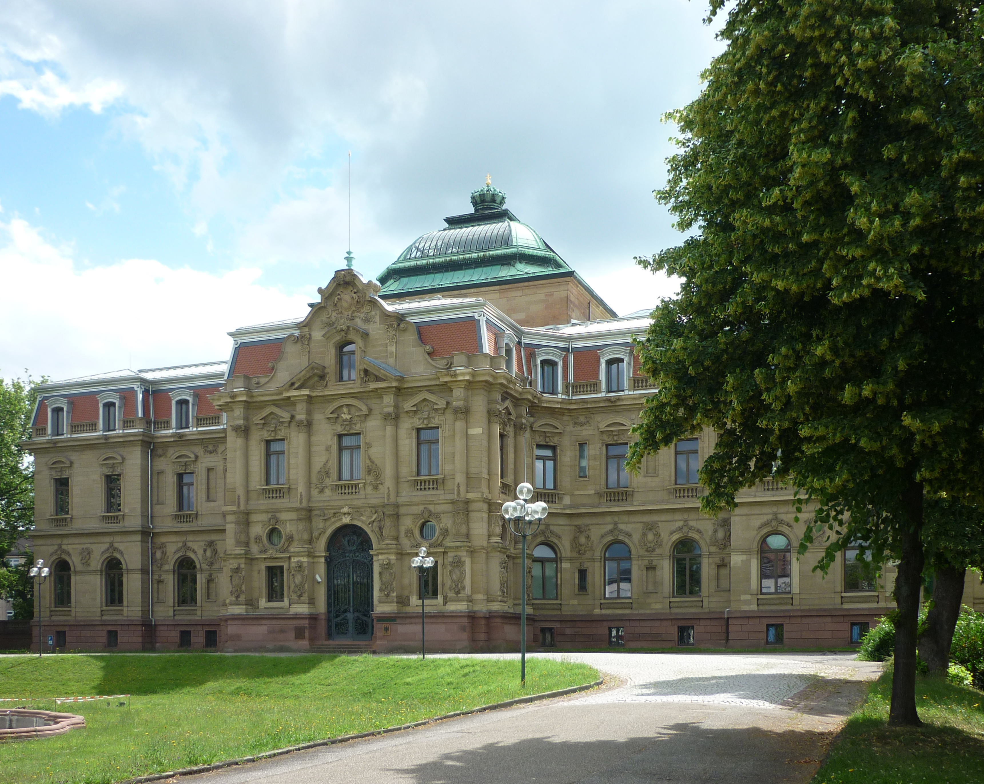 Palace of Frederick II, grand duke of Baden, today seat of the Federal Court of Justice of Germany, front side facing the central park, Karlsruhe